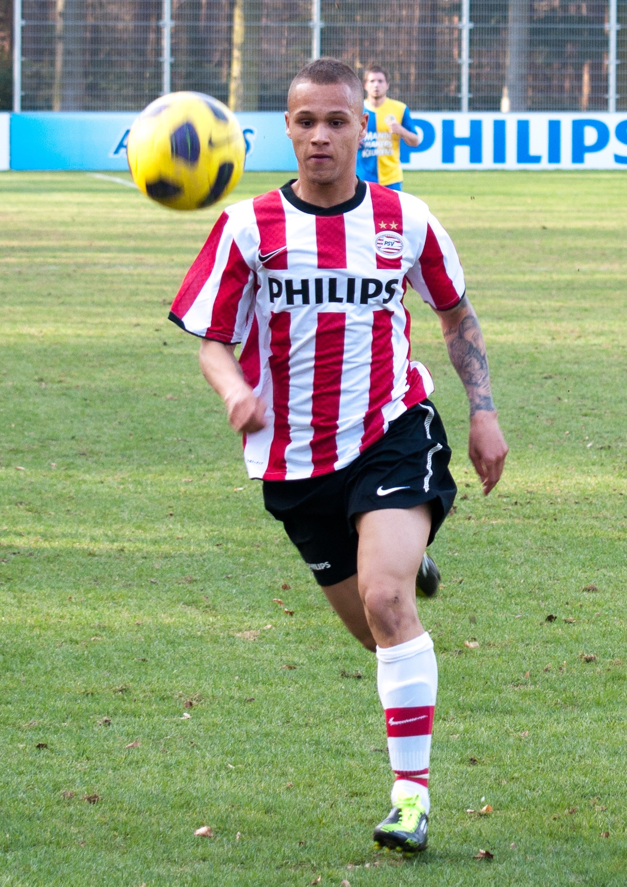 Cropped version of this photo.